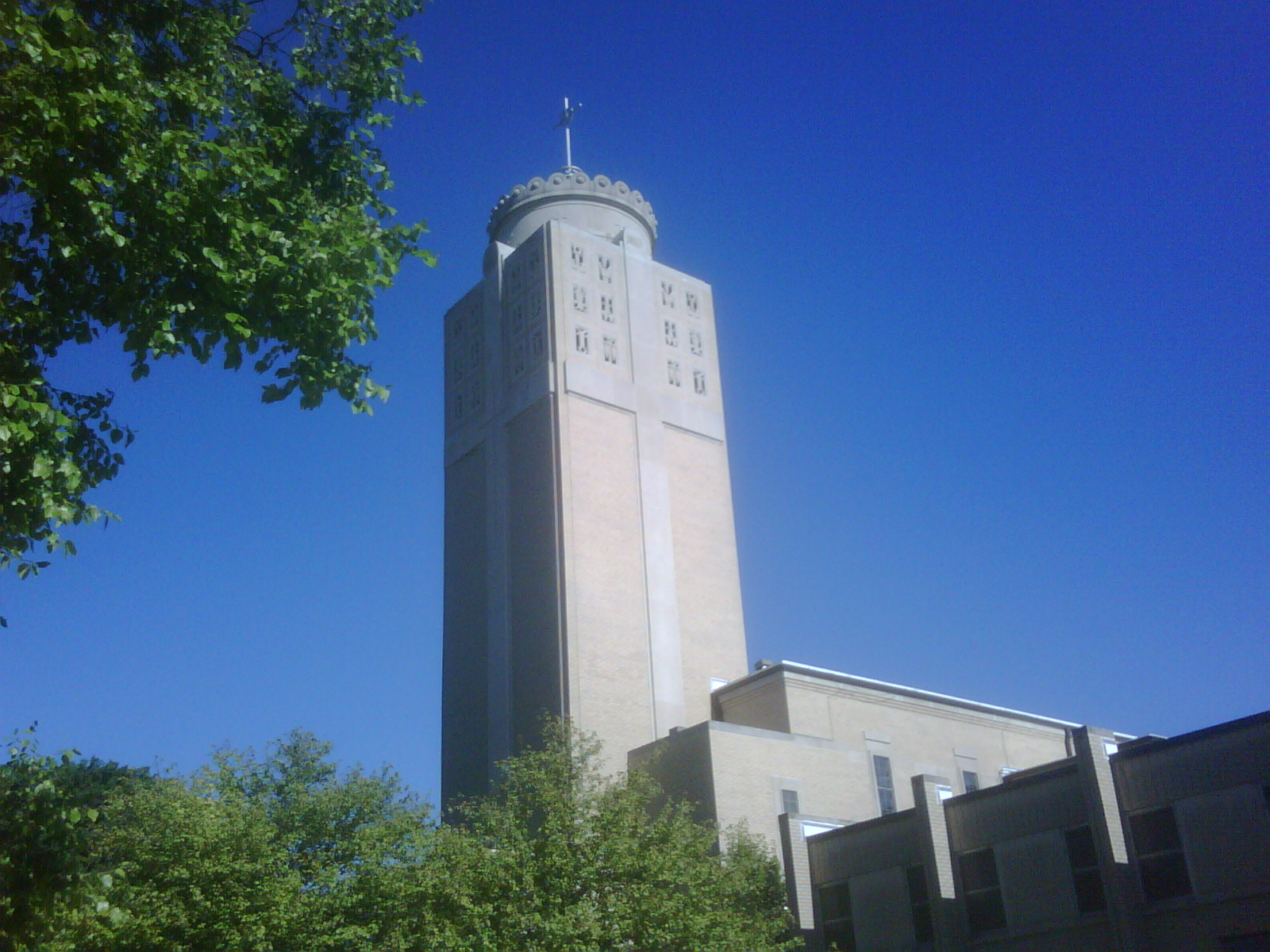 Christ the King Chapel at St. Ambrose University in Davenport, Iowa. It was designed by Cincinnati architect Edward J. Schulte. In the architectural design of the Chapel, Edward Schulte.